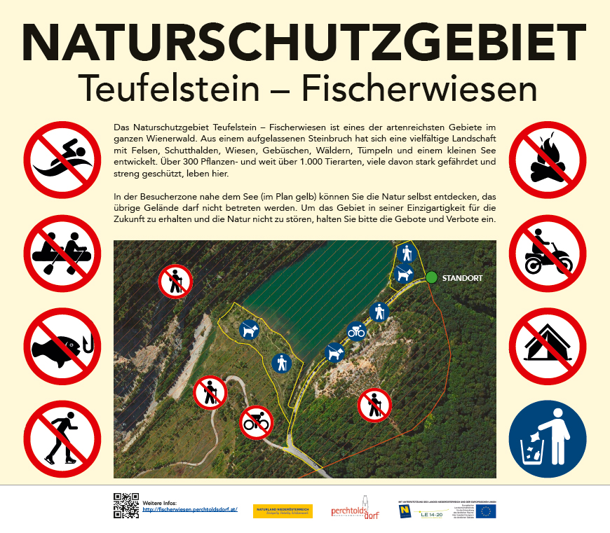 Information sign of the nature reserve "Teufelstein-Fischerwiesen" in Lower Austria This media shows the nature reserve in Lower Austria with the ID 15.